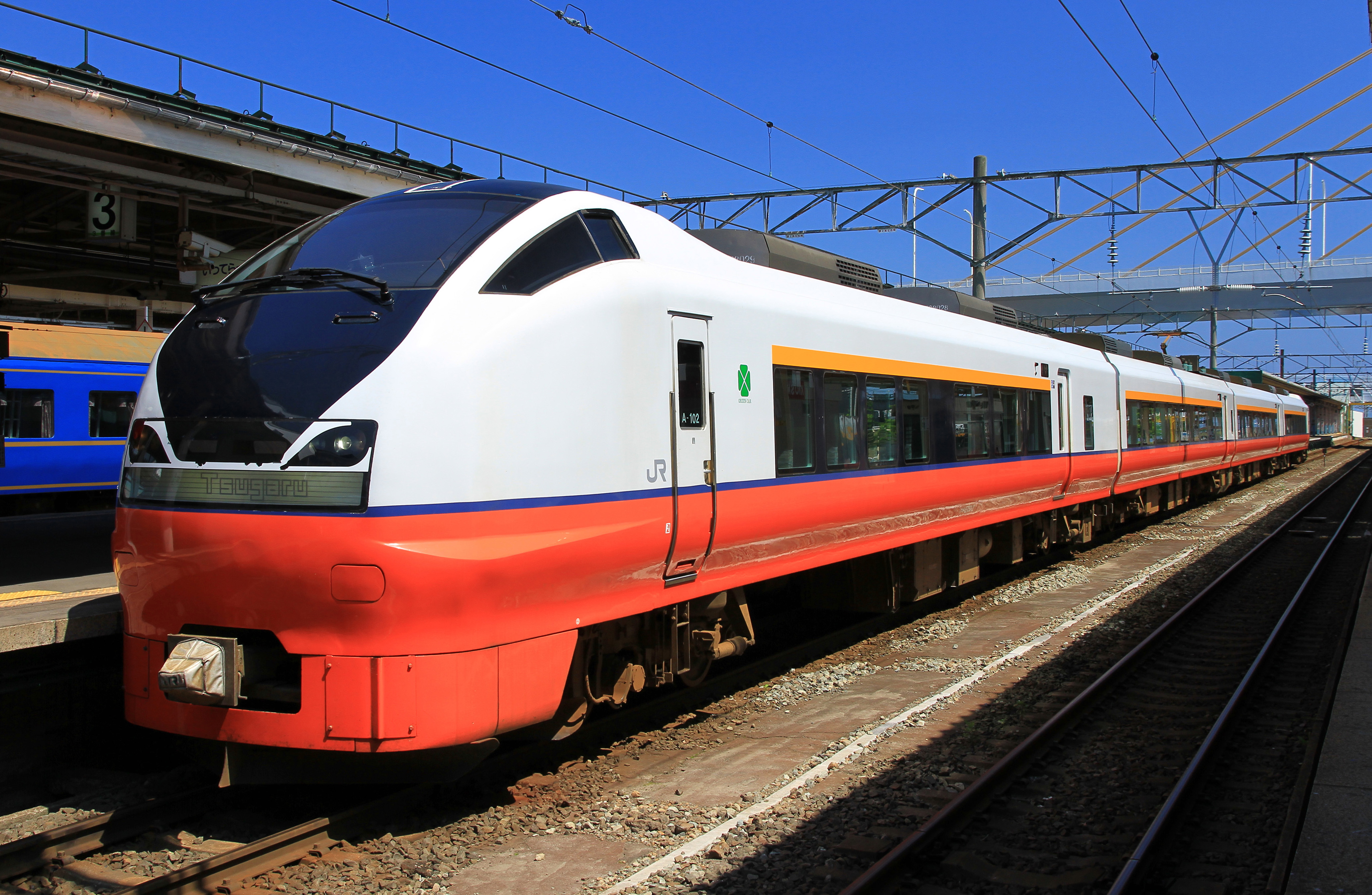 JR East E751 series 4-car EMU set A-102 at Aomori Station on a Tsugaru service